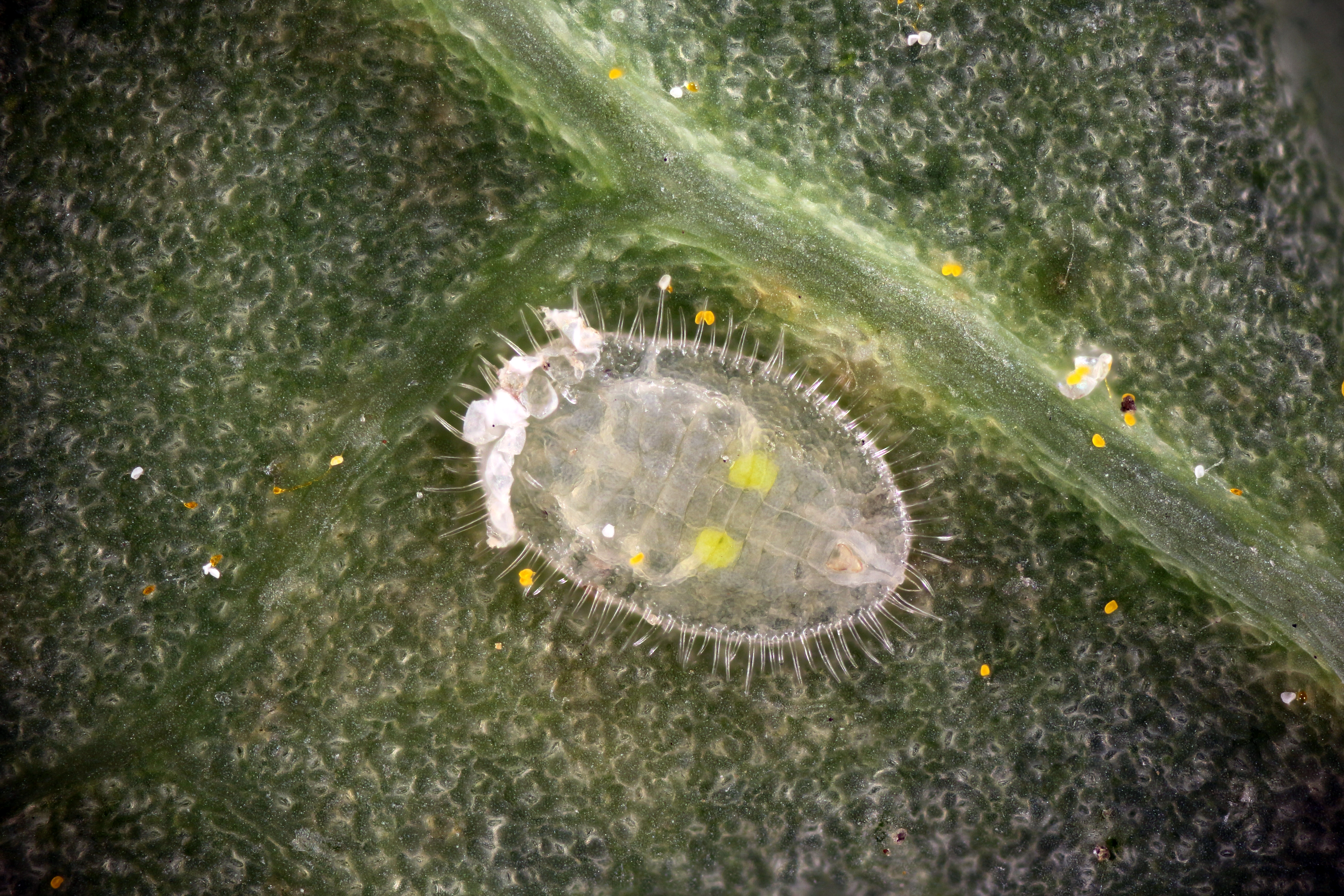 Greenhouse whitefly (Trialeurodes vaporariorum) larva. Light microscopy, incident light, focus stacking.